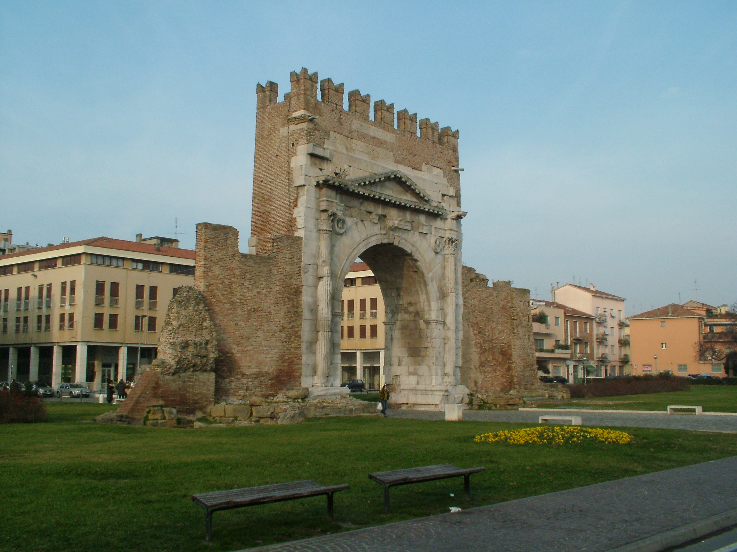 see above